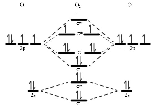 O2 MO diagram